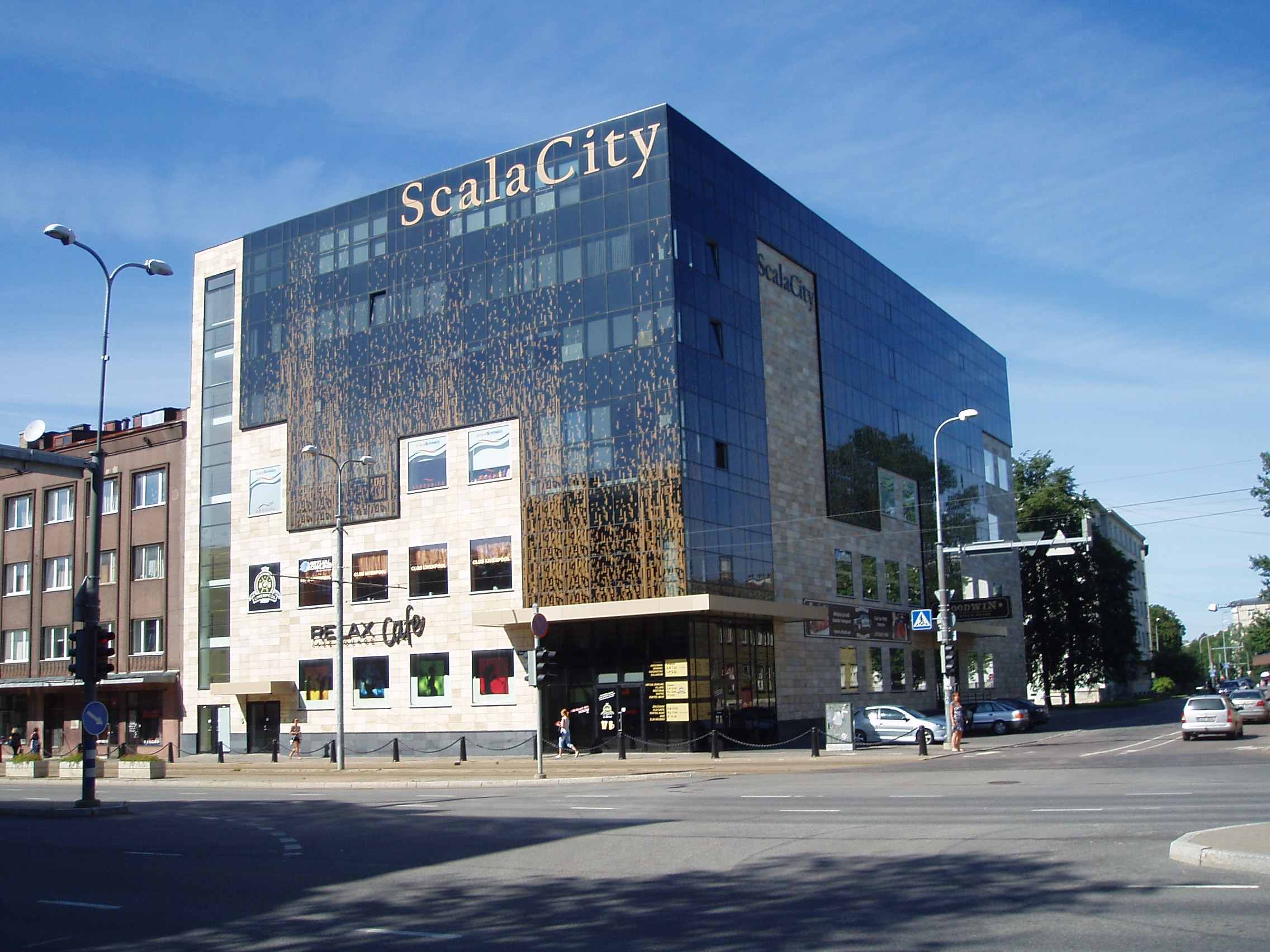 Scala City, Tartu mnt 43/ F.R.Kreutzwaldi 24, Tallinn